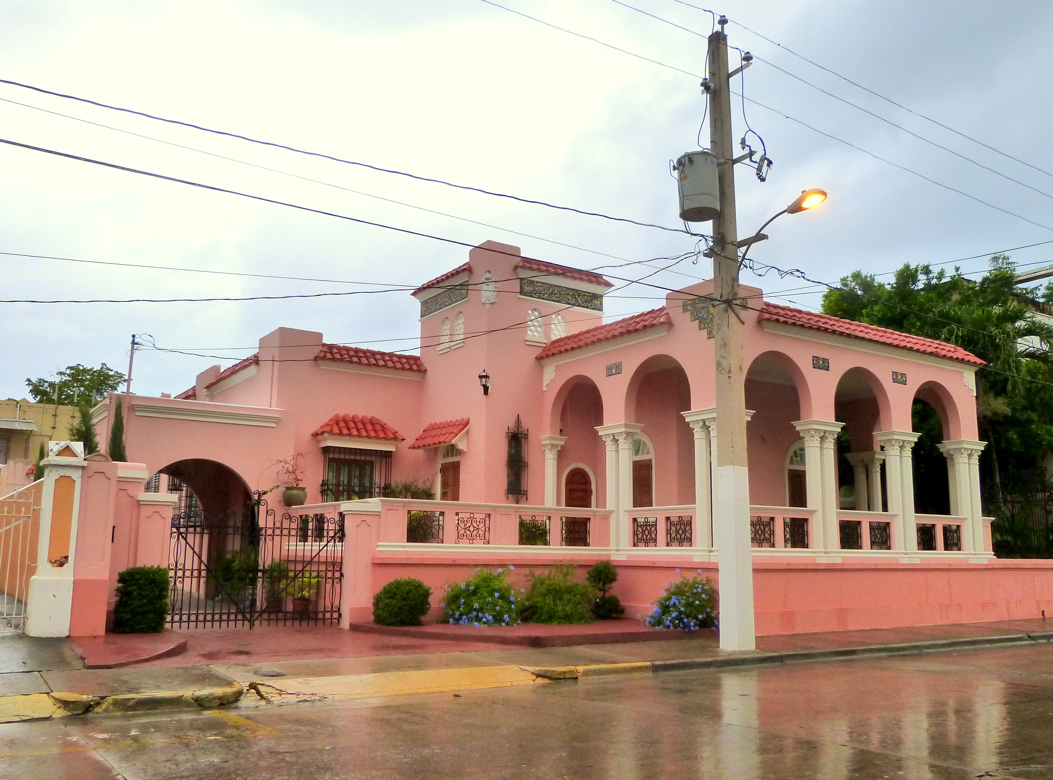 The historic Gómez Residence (built 1933), located at Calle Méndez Vigo #60 in Mayagüez, Puerto Rico, is listed on the U.S. National Register of Historic Places.